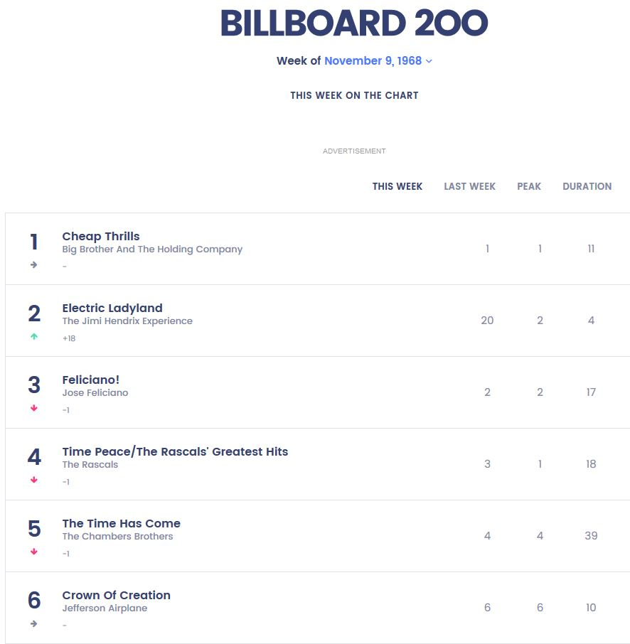 Position of Album Chepa Trills in November 1968